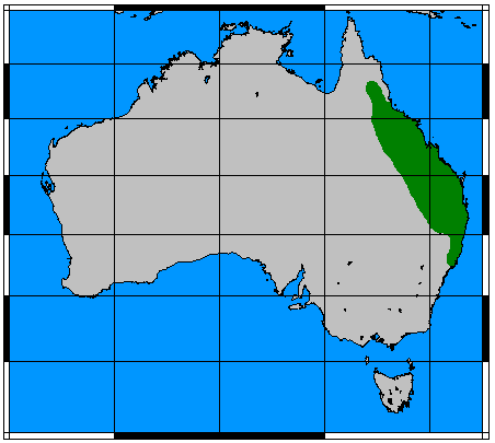 Range map for Rufous Rat-kangaroo (Aepyprymnus rufescens), map made with help of Map depending on the range map at IUCN red list.